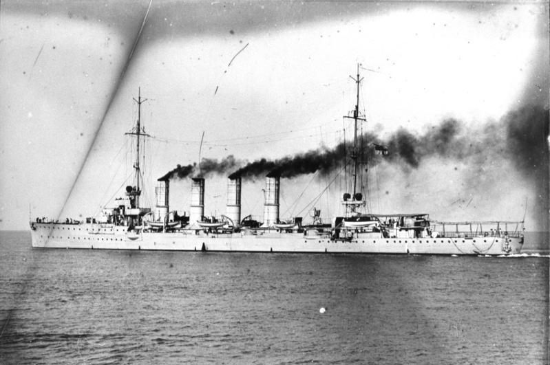 Breslau, Kleiner Kreuzer Stapellauf: 16.5.1911 Information added by Wikimedia users.The cruiser Breslau, likely in the Mediterranean between 1912 and 1914. The ship is flying the German ensign, indicating this is before her transfer to the Ottoman Navy on 16 August 1914.